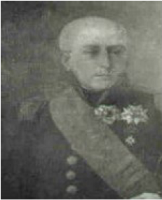 General of Division Raymond Gaspard de Bonardi de Saint-Sulpice, comte d'Empire. A general of the Napoleonic Wars and a reputed cavalryman and cuirassier commander.